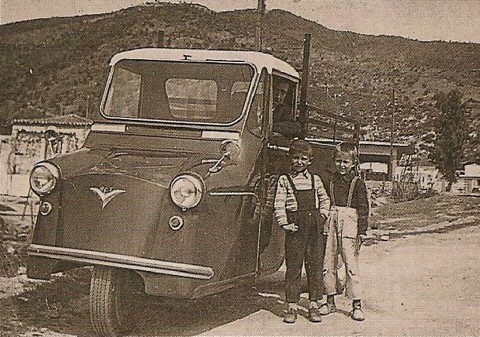 A 1967 BET truck in a very characteristic image.